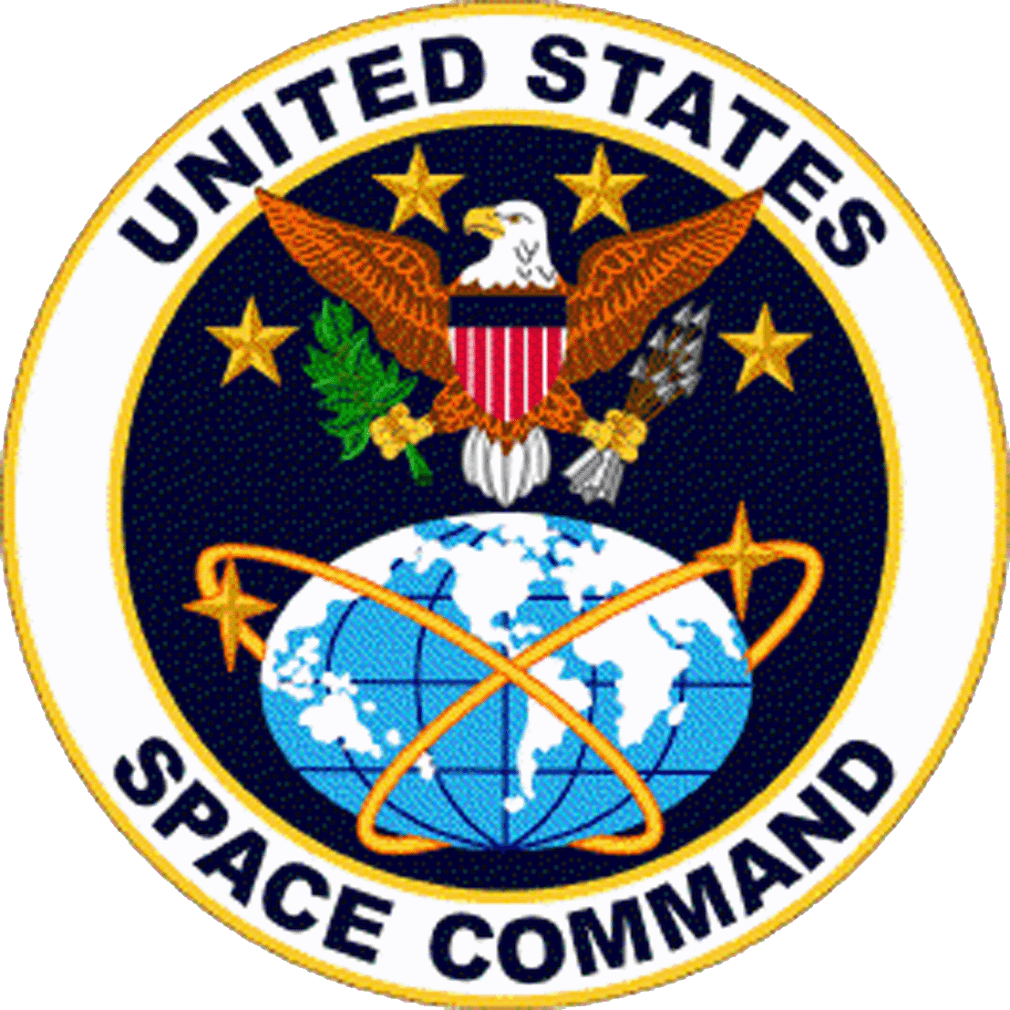 The dark blue disc encircled by a white band with narrow yellow borders inscribed "United States" at top and "Space Command" at bottom in dark blue letters, provides the background and symbolizes the space environment. The eagle and shield, a traditional symbol of American strength and vigilance, is positioned above a light blue elliptical globe with light land masses and dark blue grid lines to represent the expansion of this strength and vigilance into space. The globe, as viewed from space, symbolizes the Earth as being the origin and control point for all space vehicles and represents the area of operations of the United States Space Command. Encompassing the elliptical globe are two yellow orbital paths crossed diagonally, each bearing a yellow polestar detailed light tan and signifying the worldwide coverage provided in accomplishing the surveillance, navigation and communications missions. The gold brown eagle, detailed in dark brown and highlighted light tan, with a white head and tail; and yellow beak, eye and talons detailed in light tan, is grasping in his right talon a green olive branch, detailed in dark green, and in his left tallon 13 arrows with white arrowheads and feathers, and light tan shafts. The eagle is flanked by an arc of four yellow stars detailed in light tan, and symbolizing the fusion of the four armed services into a unified command.